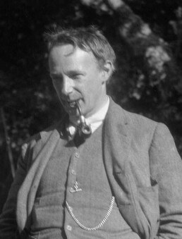 G.E. Moore